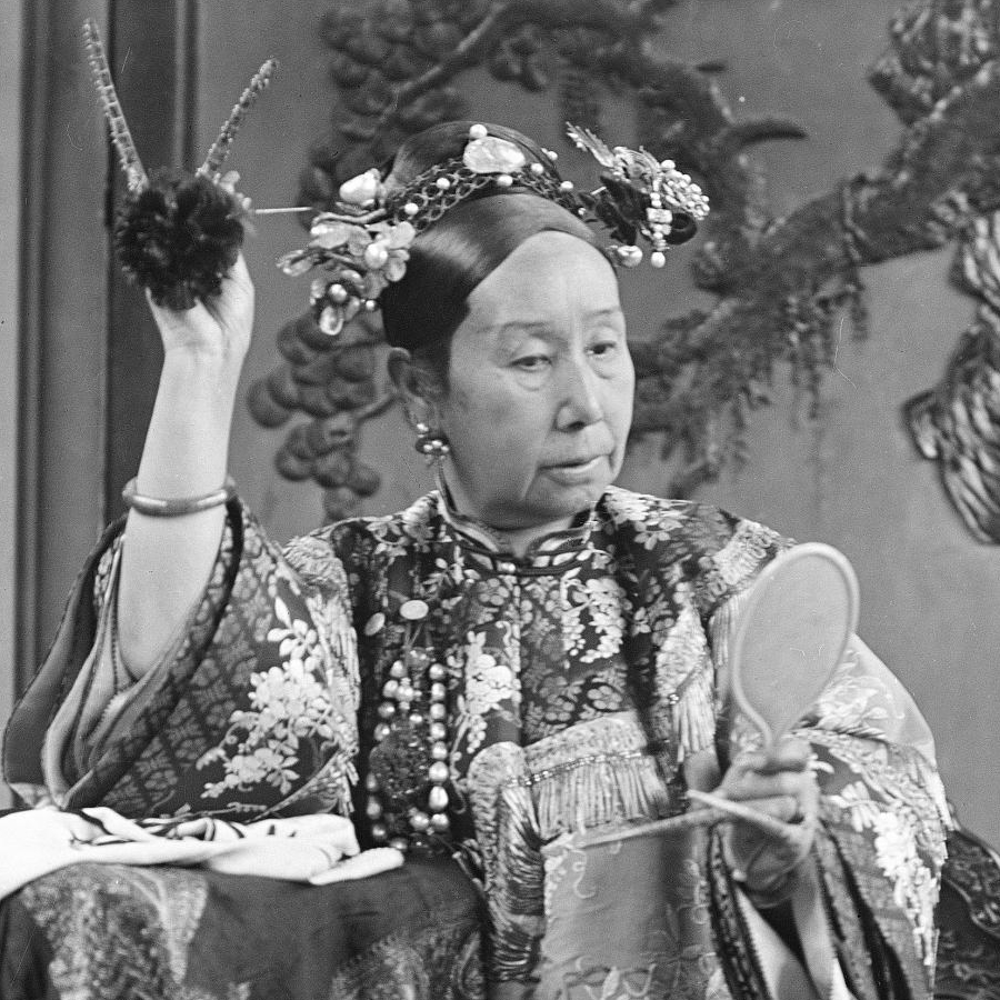 A Photograph of China's Empress Dowager